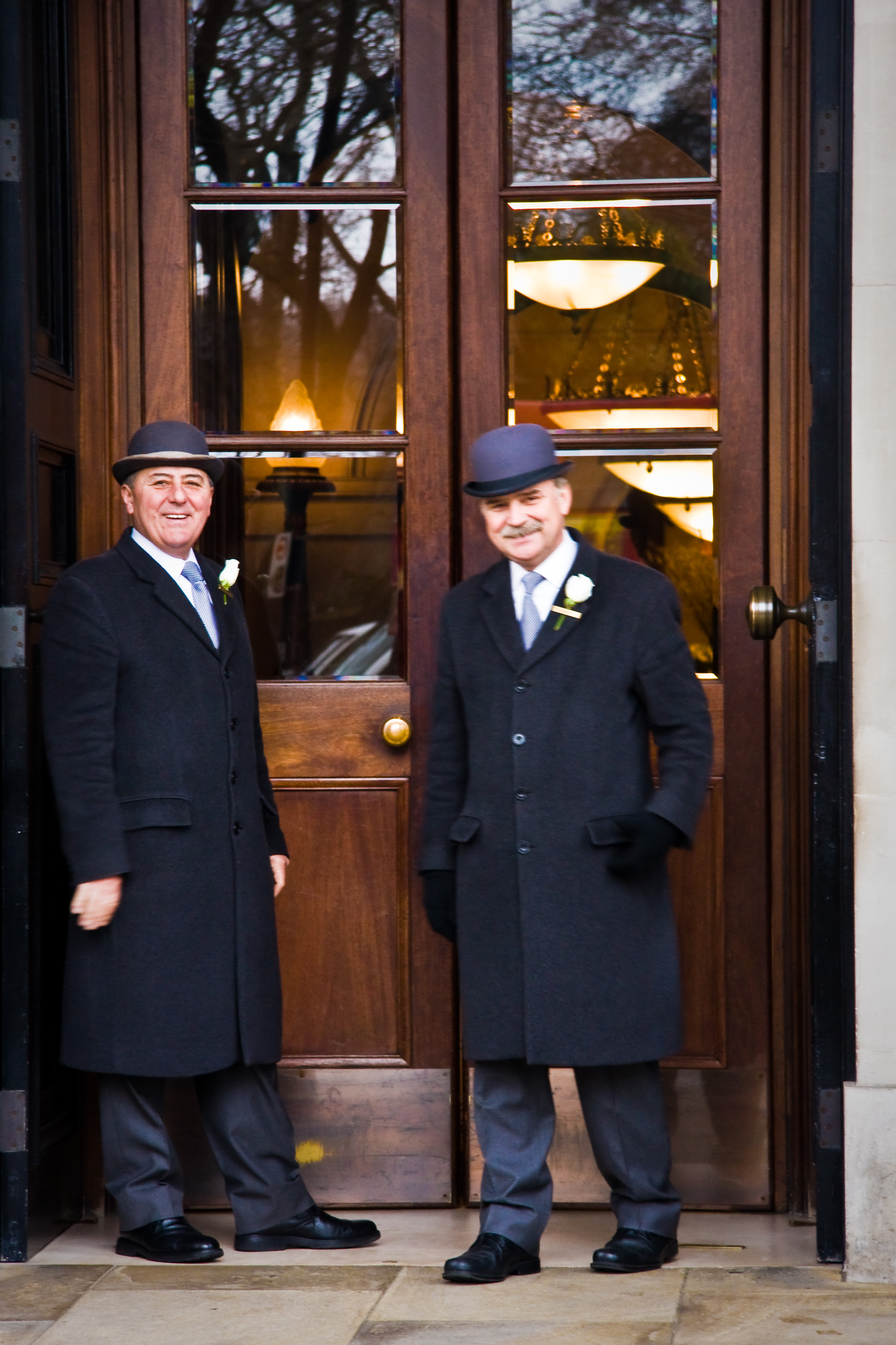 Doormen outside a hotel in Central London. The Lanesborough, 1 Lanesborough Place, Hyde Park Corner, London SW1X 7TA.